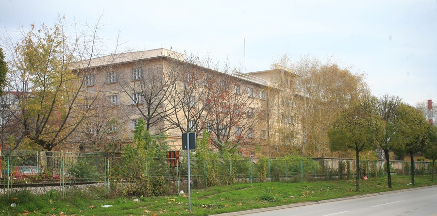 Factory Monopol Niš Srpski (latinica): Fabrika Monopol Niš